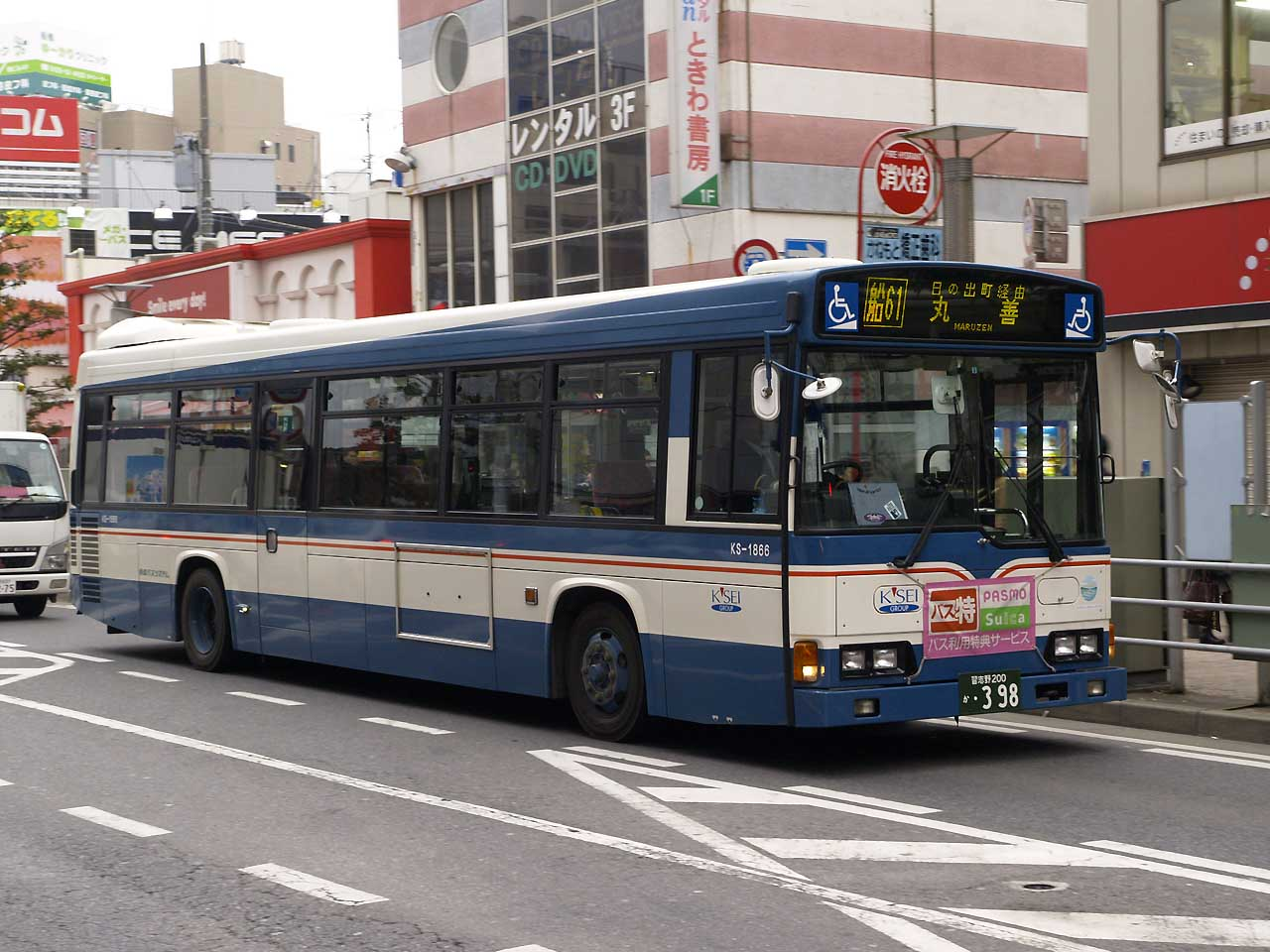 Fleet of Keisei Bus System, operated at Rinko Line. Model: Hino Rainbow HR KL-HR1JNEE License plate: CBN200 KA-398 Place: neighbour of Funabashi Station, Funabashi City, Chiba Japan